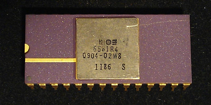 6581R4 in cermaic DIP manufactured in week 11 of 1986